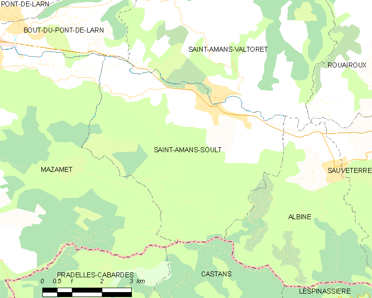 Map commune FR insee code 81238.png - Saint-Amans-Soult